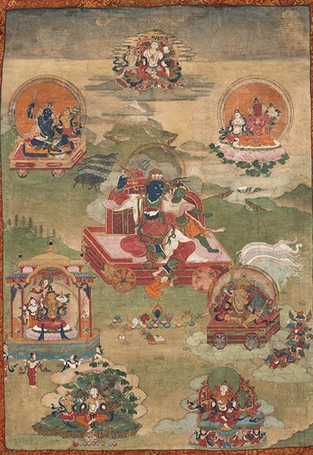 Eight Kings from Shambala. Tibetan thangka Palpung-style